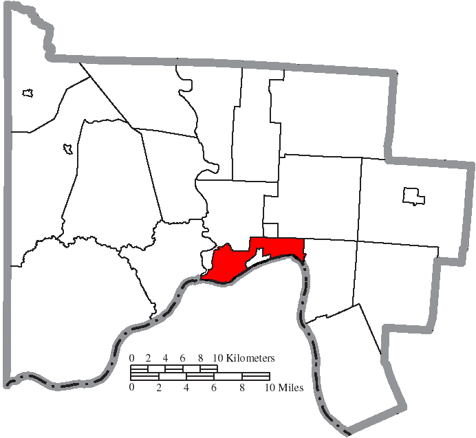 Map of the municipal and township boundaries of Scioto County, Ohio, United States, as of the 2000 census, with the location of the city of Portsmouth highlighted. Township borders are shown only in unincorporated areas in order to differentiate incorporated and unincorporated areas more clearly.